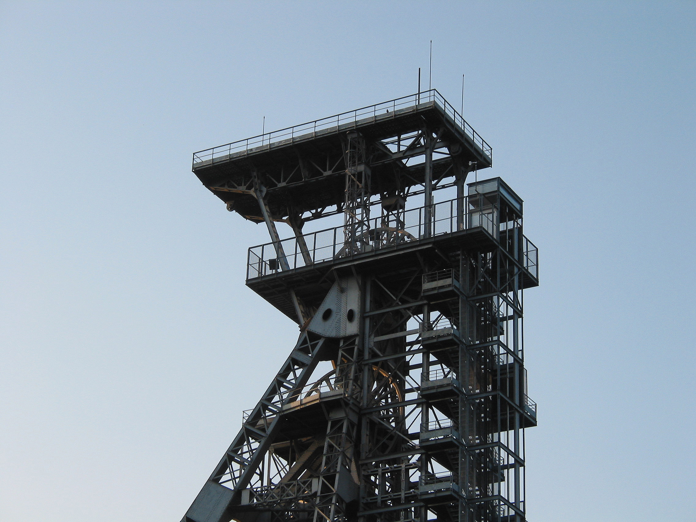 Frameries (Belgium), the winingtower "le Crachet" coal mining.